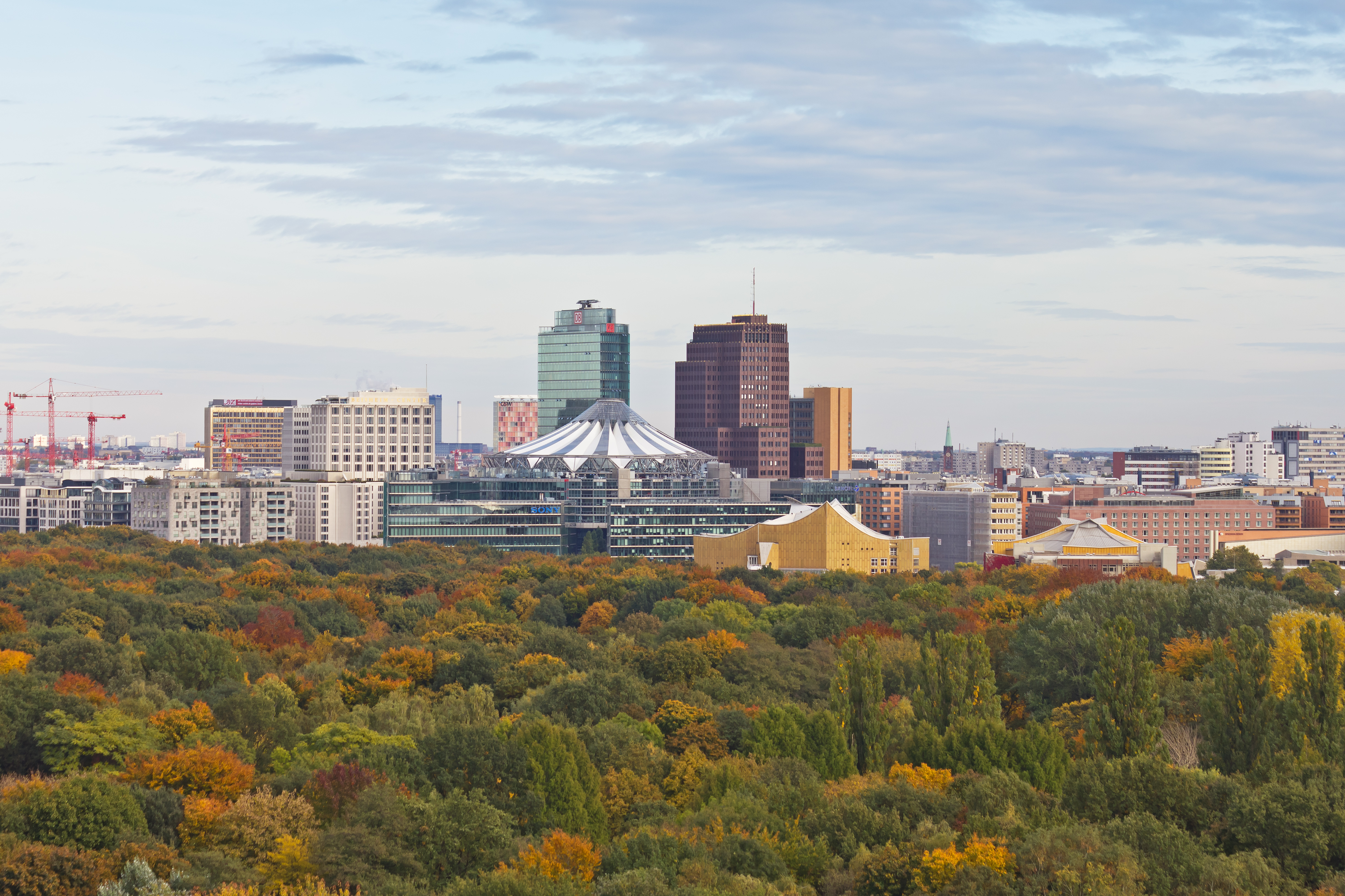 View from the Victory Column towards Potsdamer Platz, Berlin, Germany